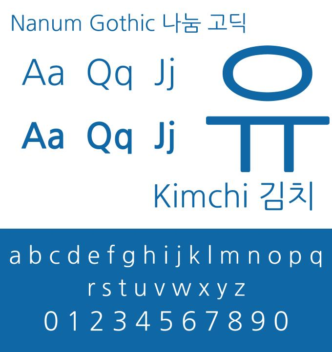 Sample of Nanum Gothic typeface. Kimchi is a very robust food in South Korea